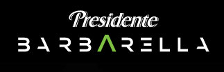 Barbarella by Presidente